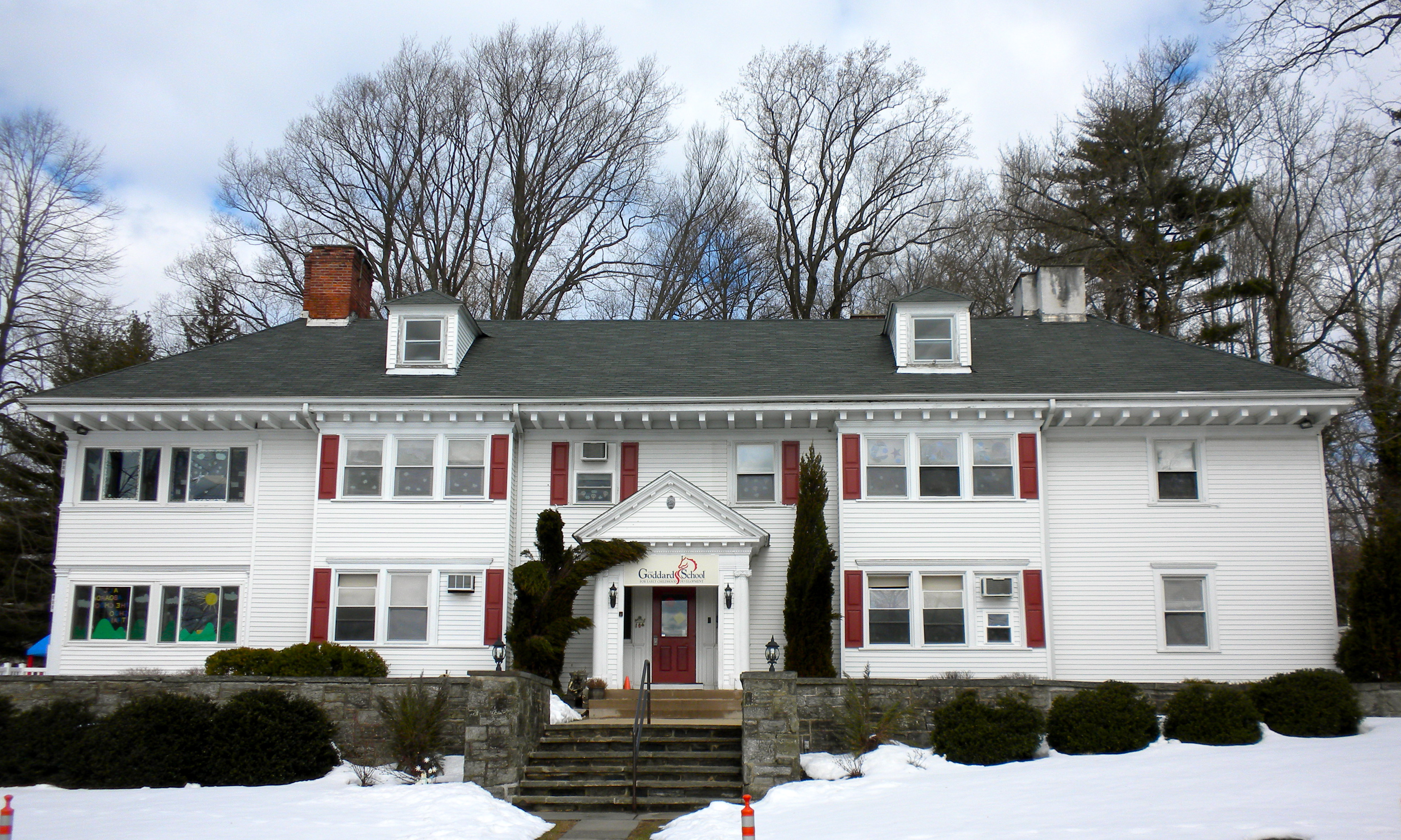 Cramond, In Chester County, PA, on NRHP since June 30, 1983. At 95 Crestline Road near Strafford, across from Strafford Station. Now a private school (pretty upscale looking, lower grades?) Tredyffrin Township